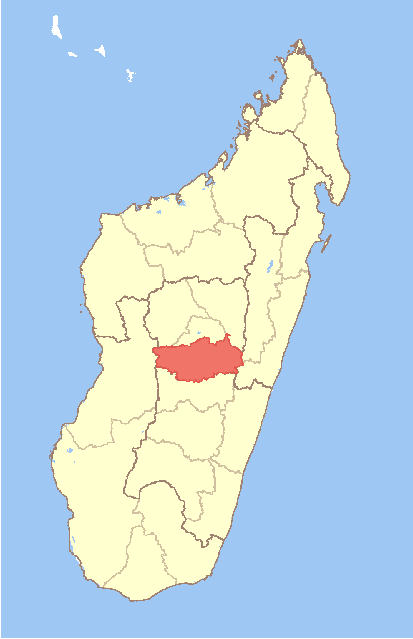 Map of Madagascar with Vakinankaratra Region highlighted